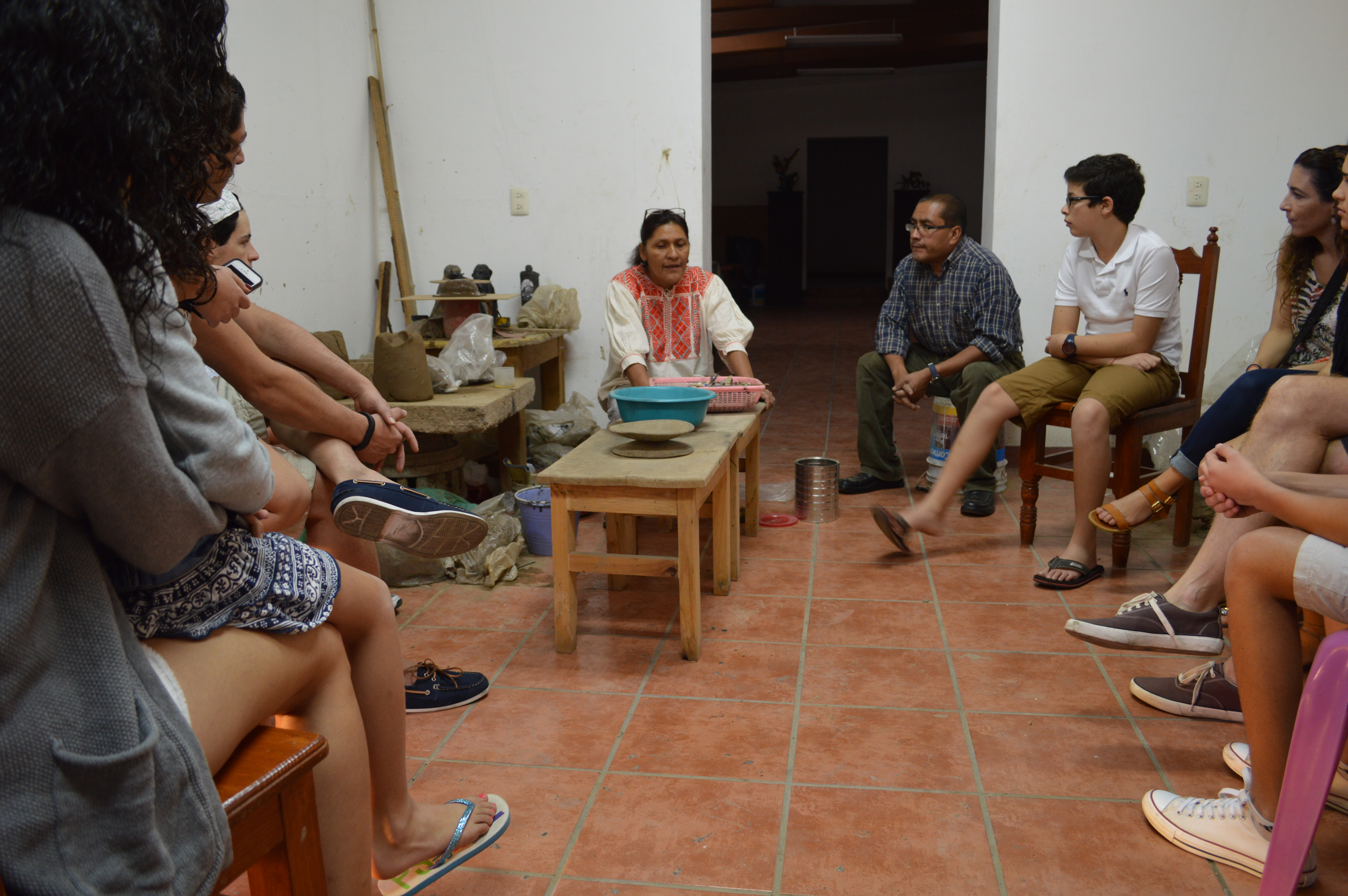 Carlomagno and Adelina Pedro Martinez giving a demonstration at the family workshop in San Bartolo Coyotepec, Oaxaca, Mexico